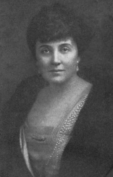 Photo of American author Mary Roberts Rinehart from a 1918 collection of her writings. Cropped and cleaned from original.